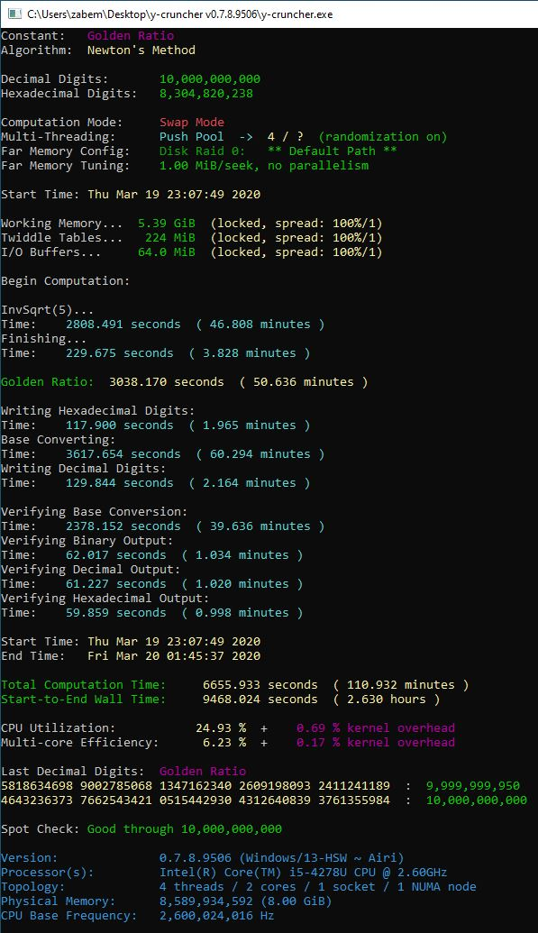 This is a screenshot showing the software y-cruncher computing 10.000.000.000 Decimal Digits of the Golden Ratio